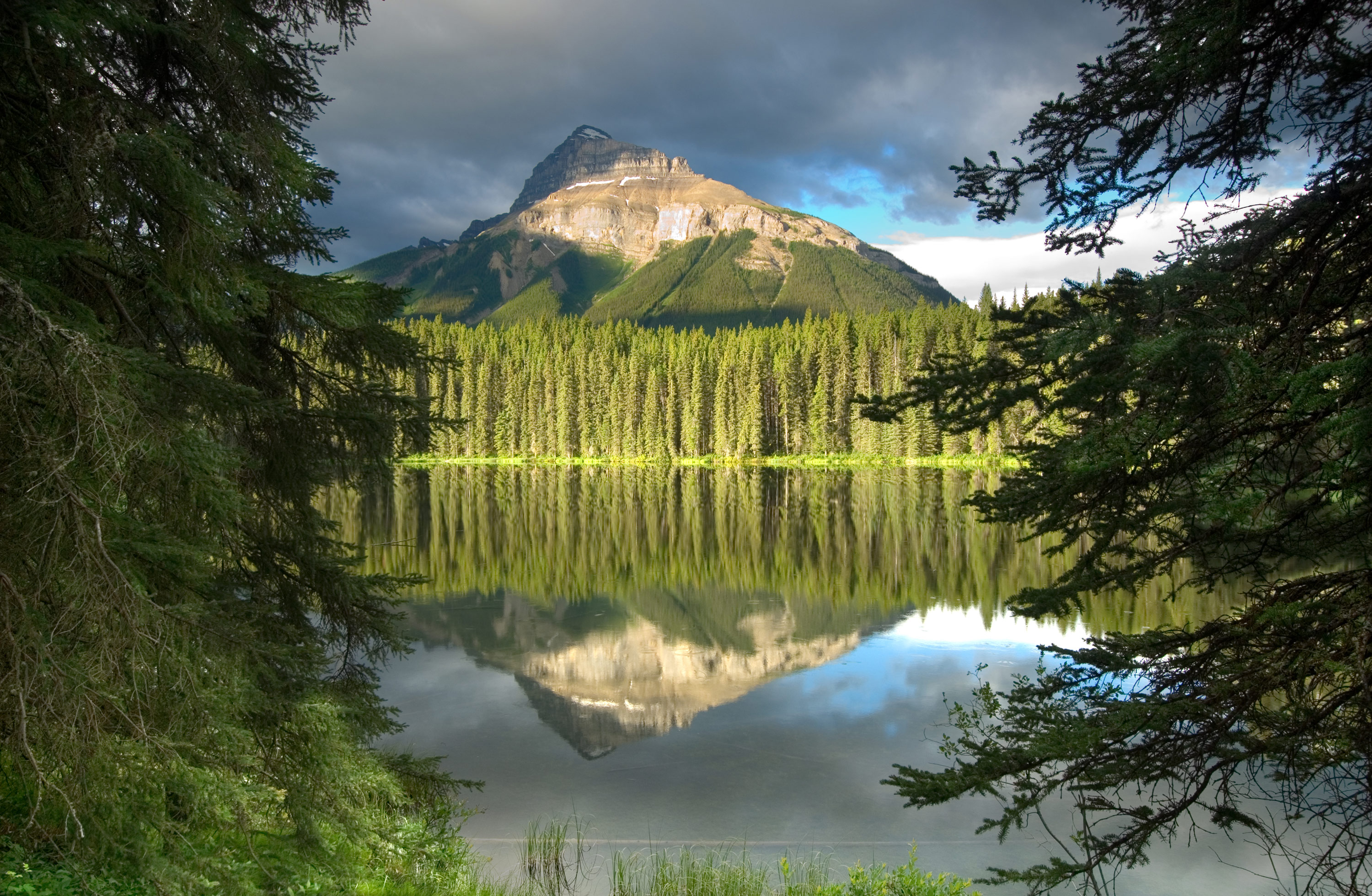 Pilot Mountain reflected in Pilot Pond in Banff National Park, Alberta, Canada.